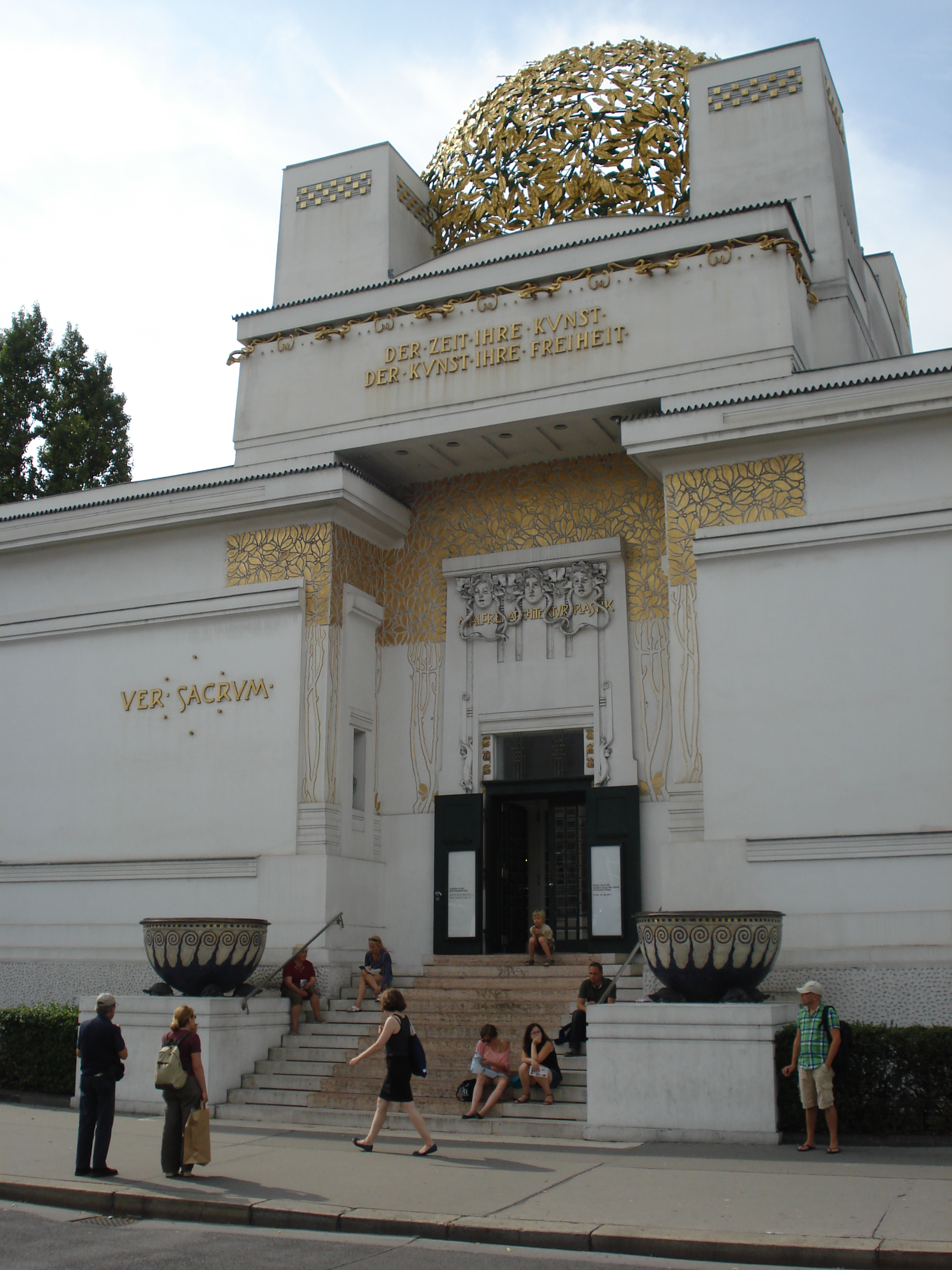 Austria, Vienna, Secession hall